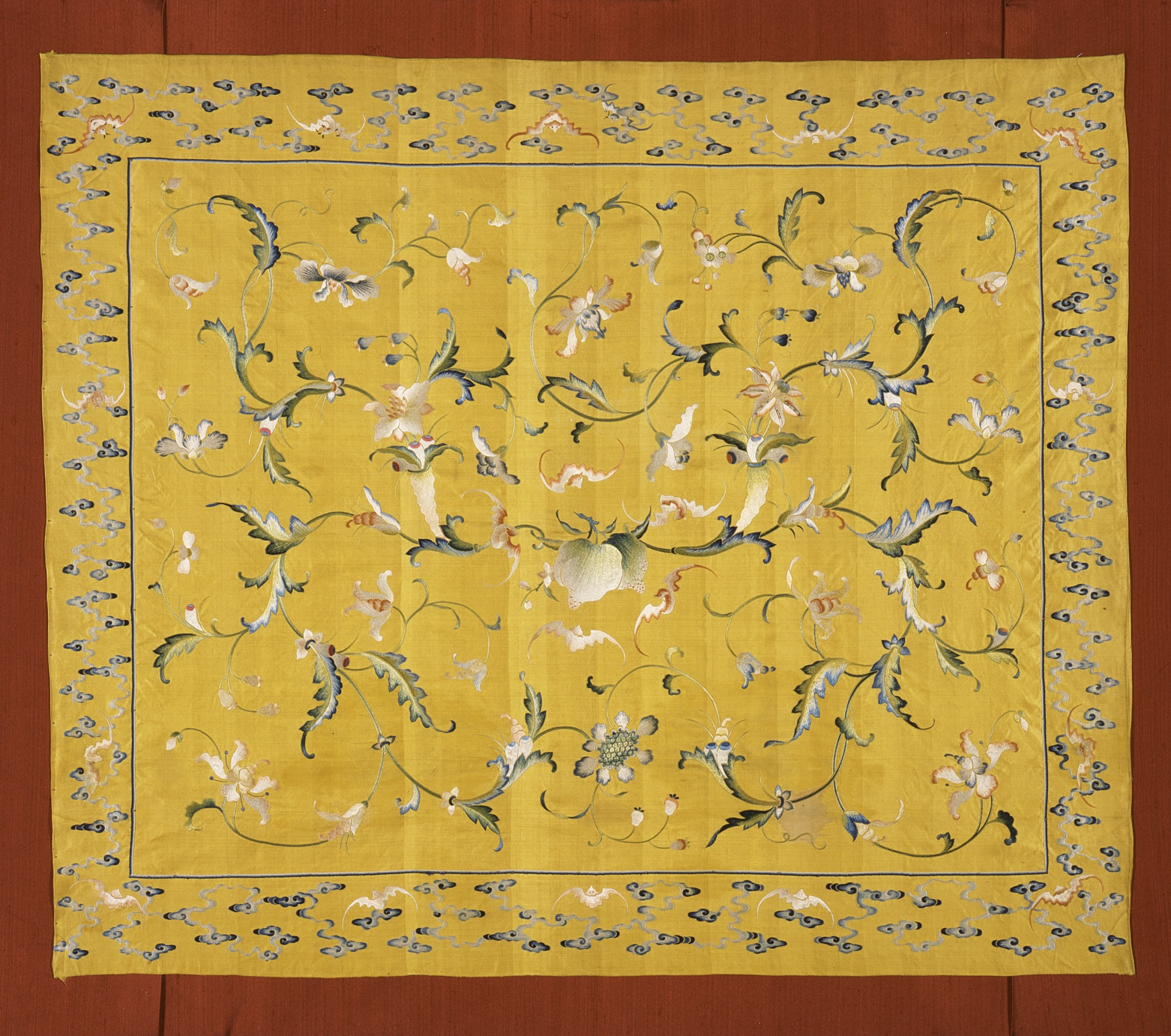 China, Qing dynasty, Qianlong reign, 1736-1795 Textiles; covers Silk thread embroidery on silk satin 28 1/2 x 32 1/2 in. (72.39 x 82.55 cm) Mr. and Mrs. Allan C. Balch Collection (M.45.3.184) Costume and Textiles